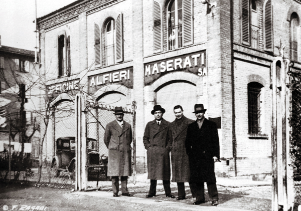 Zagara/Testi caption says: "Ernesto and Mario Maserati at factory, Ettore, Bindo, 1934." This may be in 11 Via de'Pepoli, Bologna. The man on the right looks like Alfieri (dead 1932) but is actually Bindo (according to the caption)